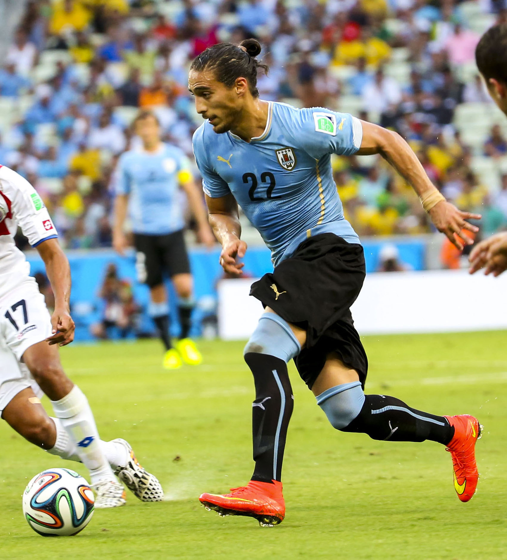 Martín Cáceres during Uruguay and Costa Rica match at the FIFA World Cup 2014, June 14.